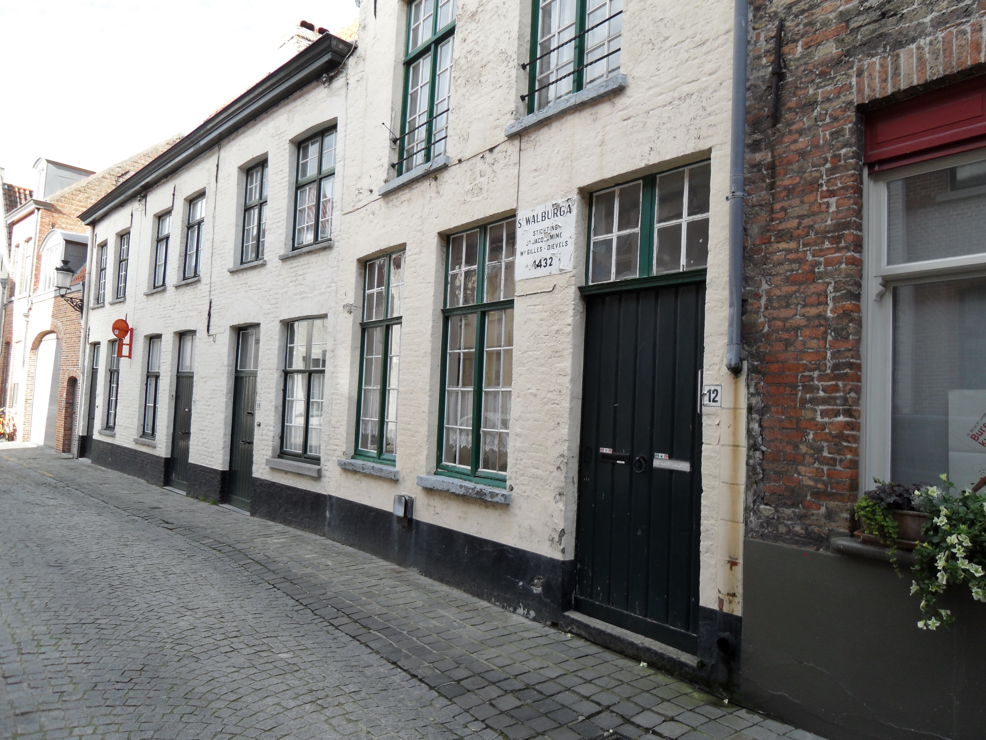 Godshuis St Walburga in Bruges